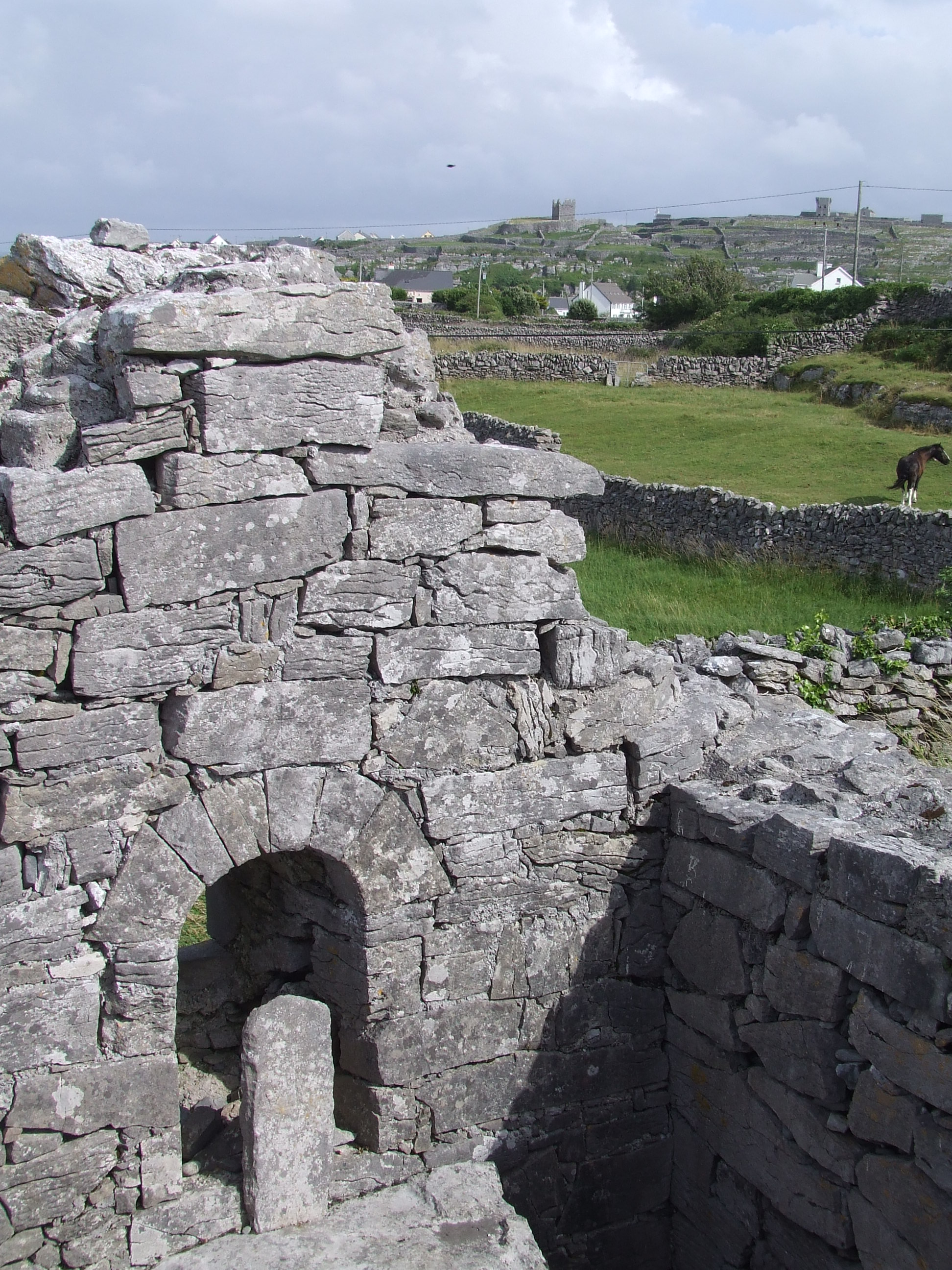 Saint Gobnait's church, Inisheer (Inis Oírr) with the O'Brien fort just visible in the background